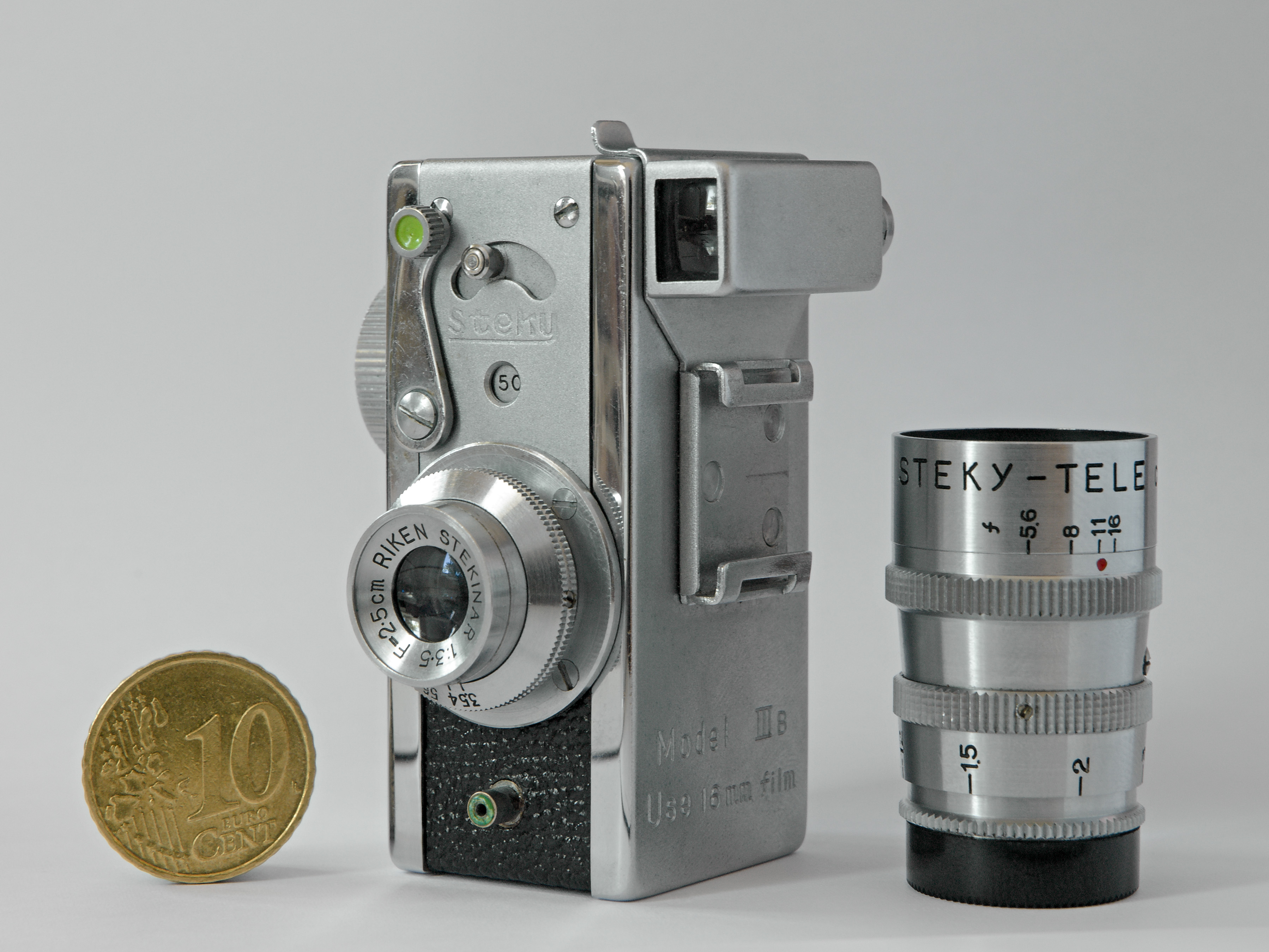 The japanese subminiature camera "Steky III B" was built from 1955 on and uses 16 mm film (picture format: 10 x 14 mm). It's size is 66 x 40 x 42 mm (H x W x D). The standard lens has a focal distance of 25 mm and a maximum aperture of 3.5; the also shown tele lens has a focal distance of 40 mm and a maximum aperture of 5.6.